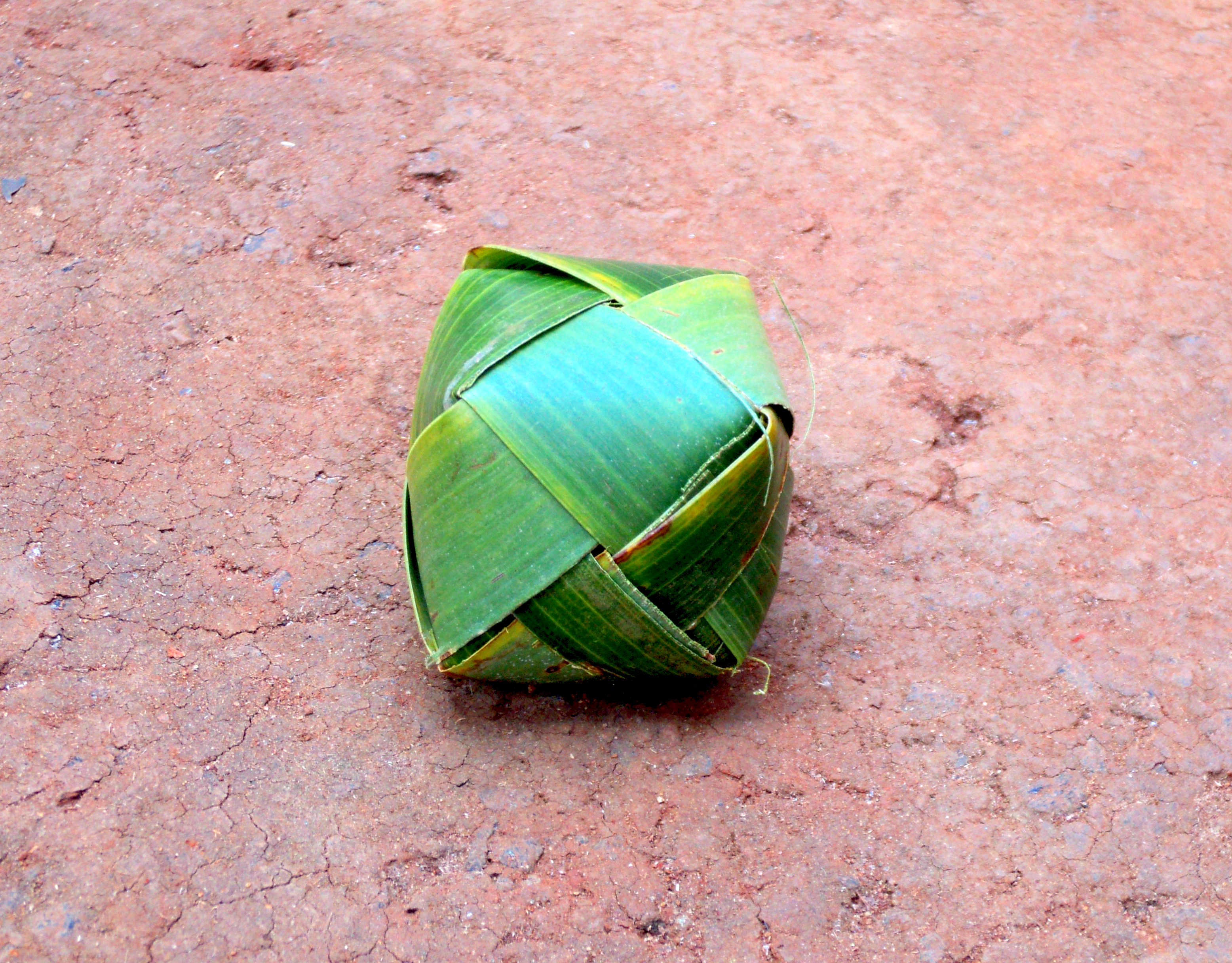 A ball made using coconut leaves, usually used to play Olapanthu, Lathi etc which were popular games in Kerala, India